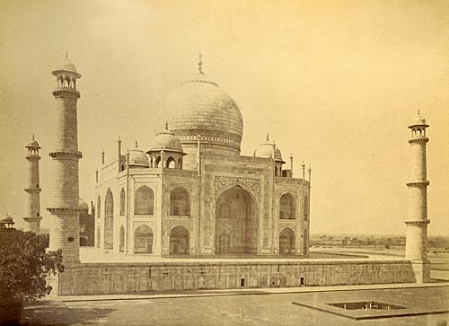 taj mahal 1880